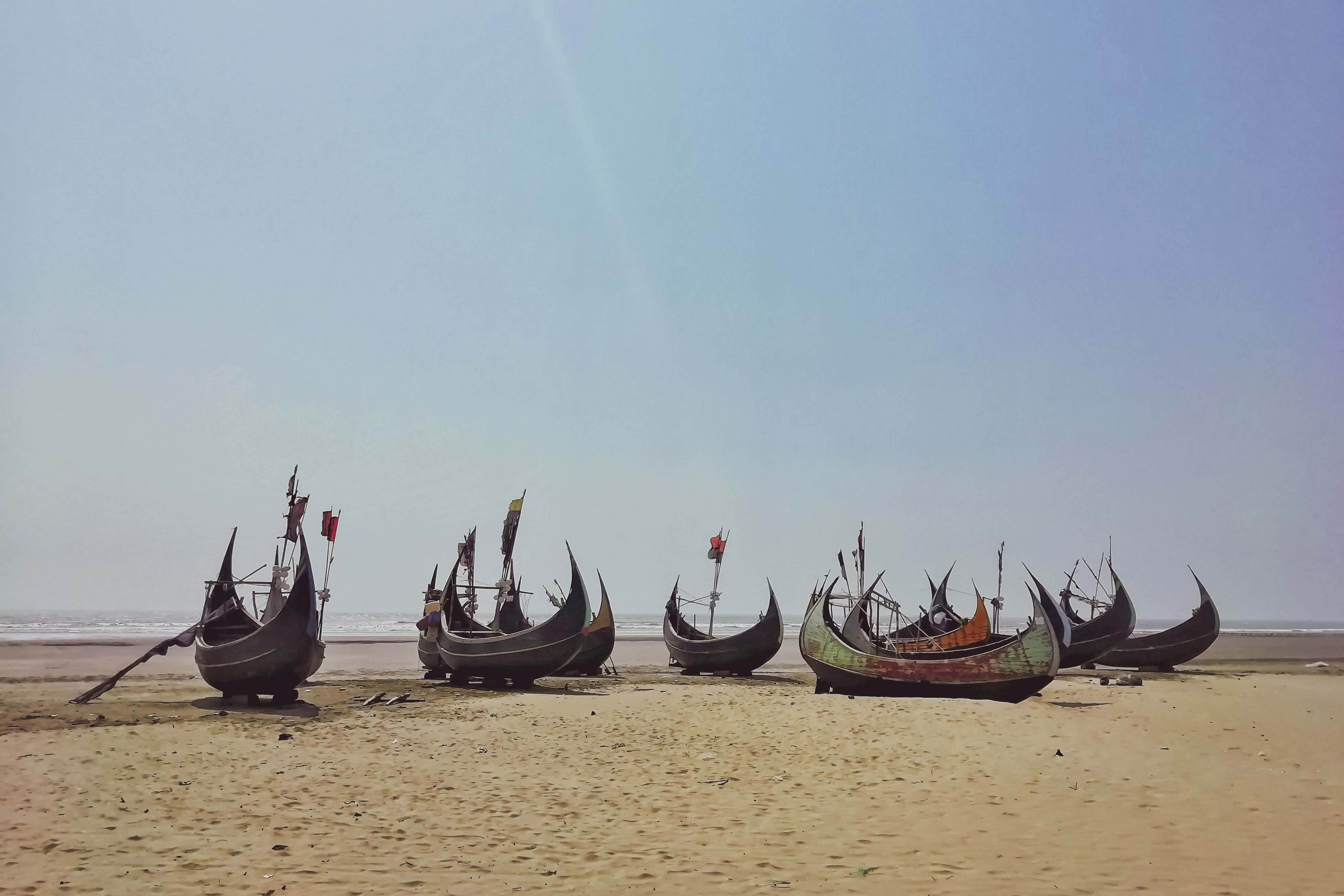 Cox's Bazar